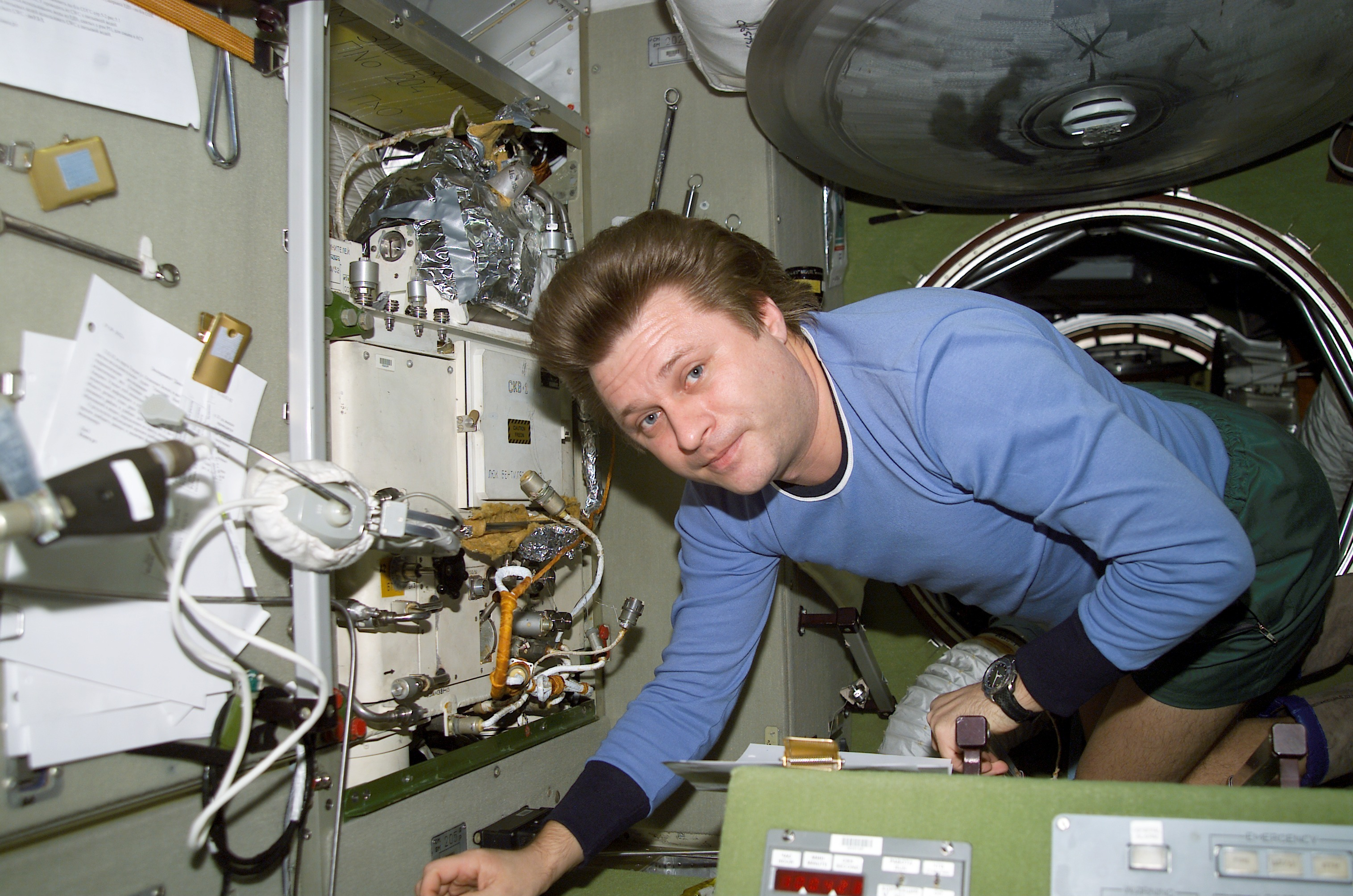 Cosmonaut Yury I. Onufrienko, Expedition Four mission commander, works in the Zvezda Service Module on the International Space Station (ISS).